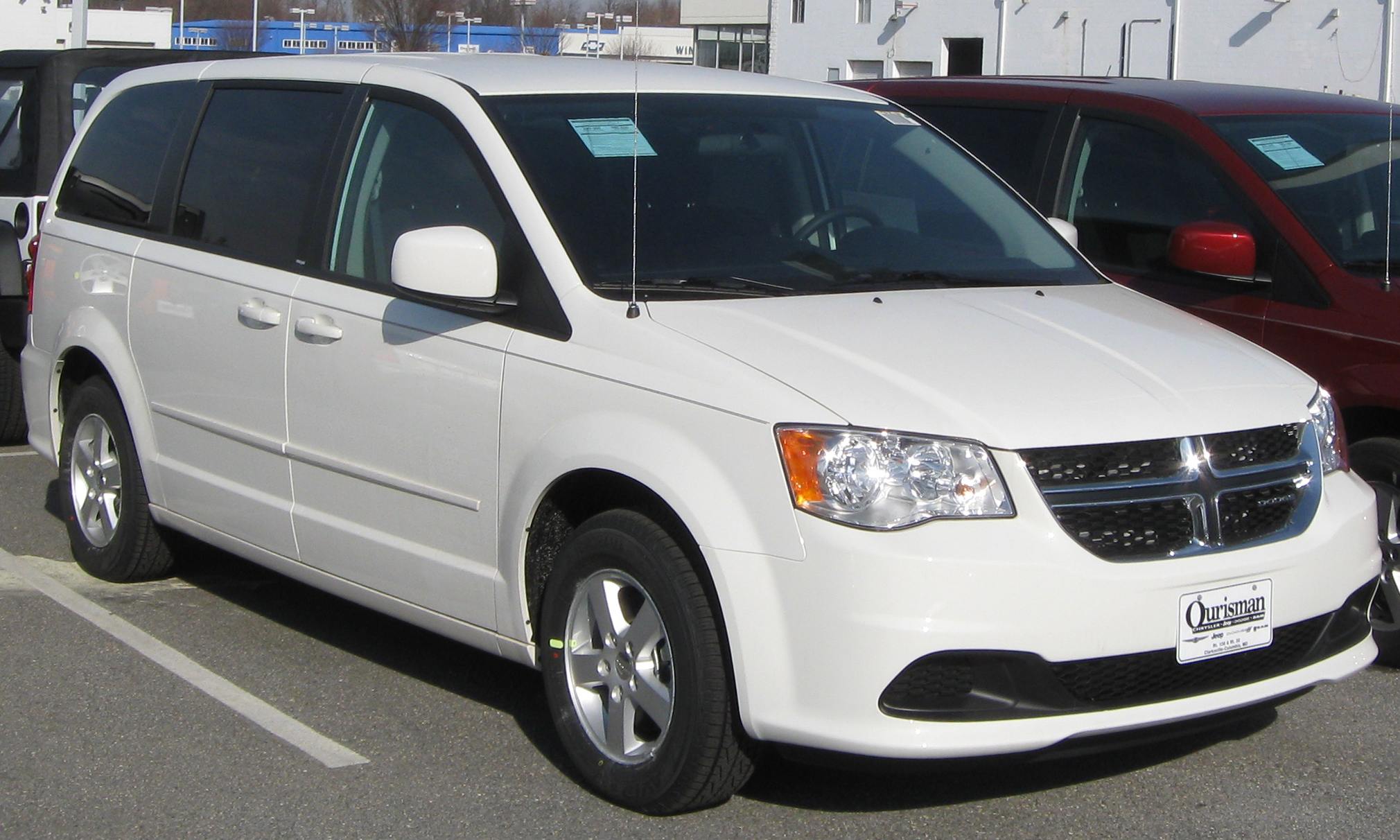 2011 Dodge Grand Caravan photographed in Clarksville, Maryland, USA.